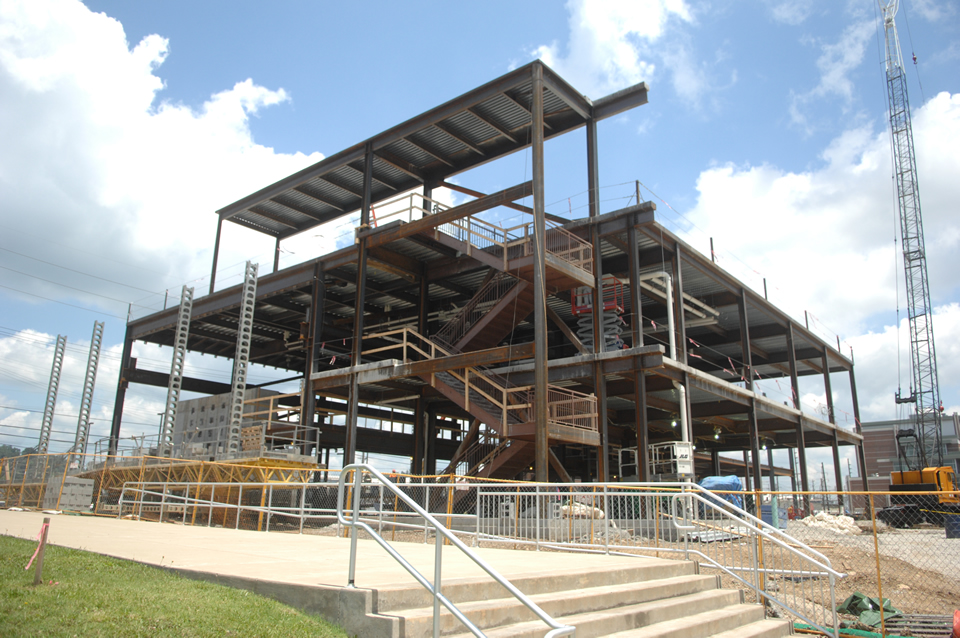 The new Applied Engineering Complex